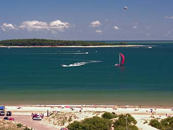 Playa Mansa. Gorriti Island. Punta del Este.